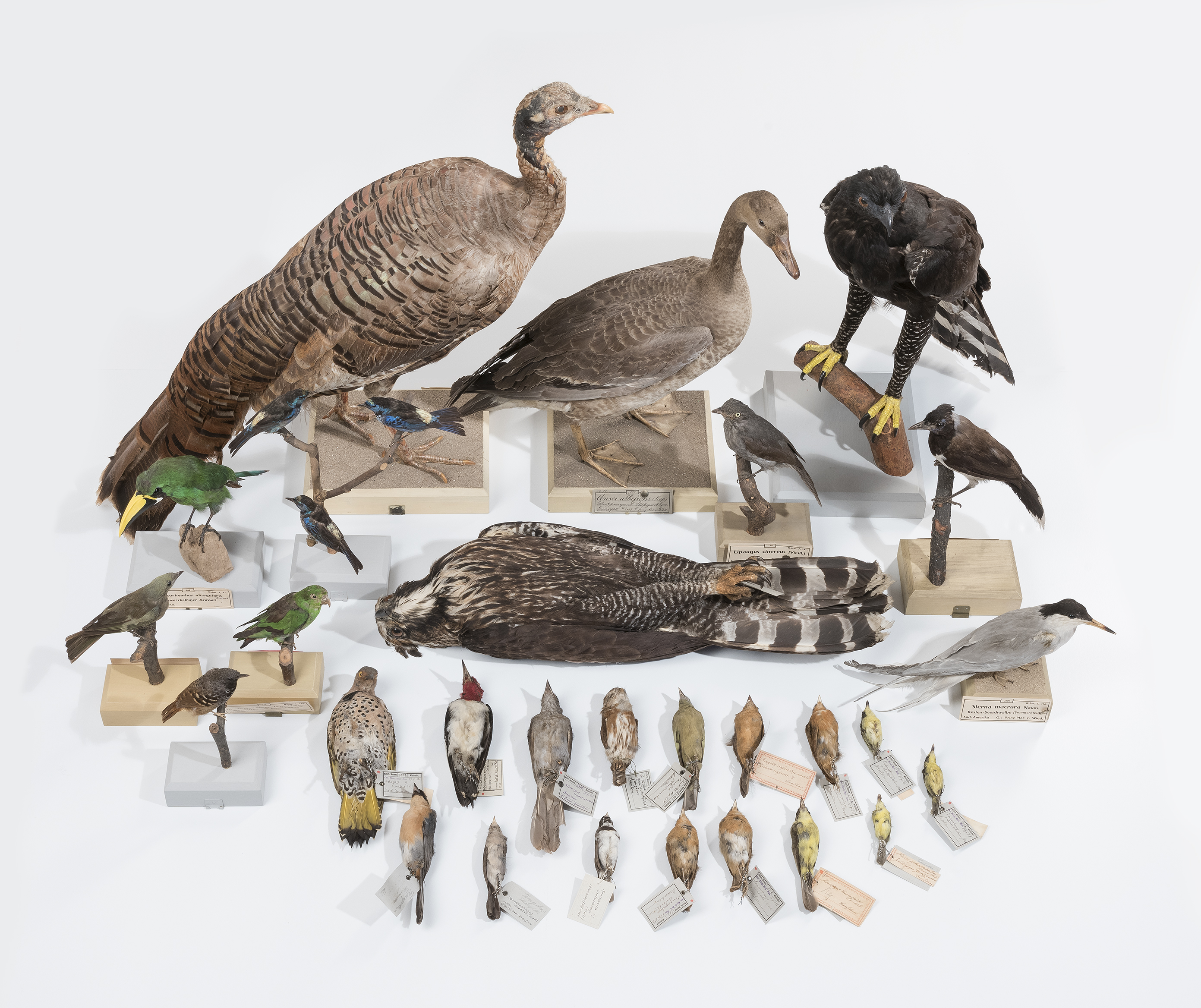 Mounted birds of the Wied collection, Museum Wiesbaden